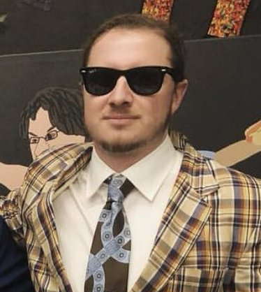 pardonmytake